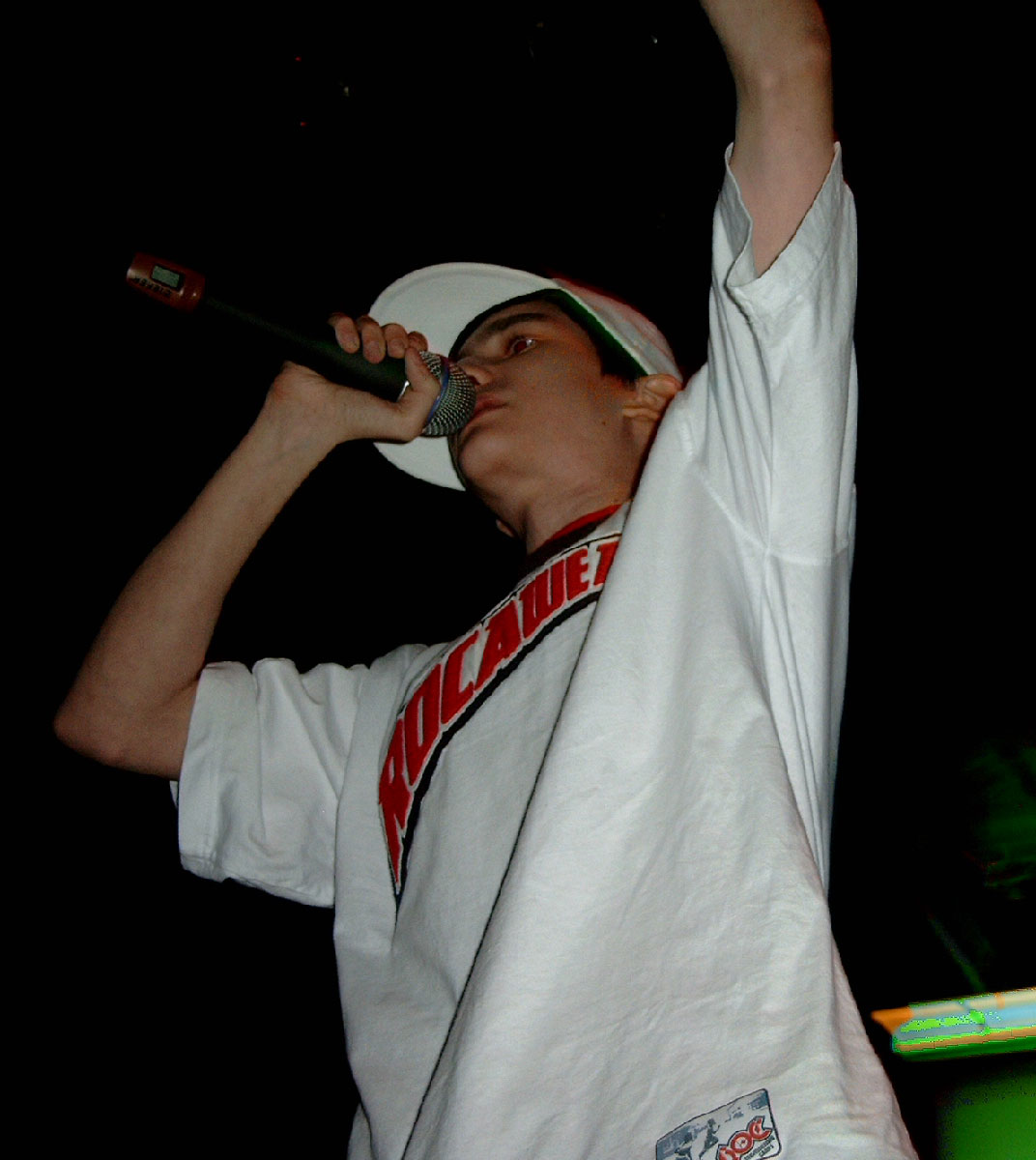 German Rapper F.R. live on stage